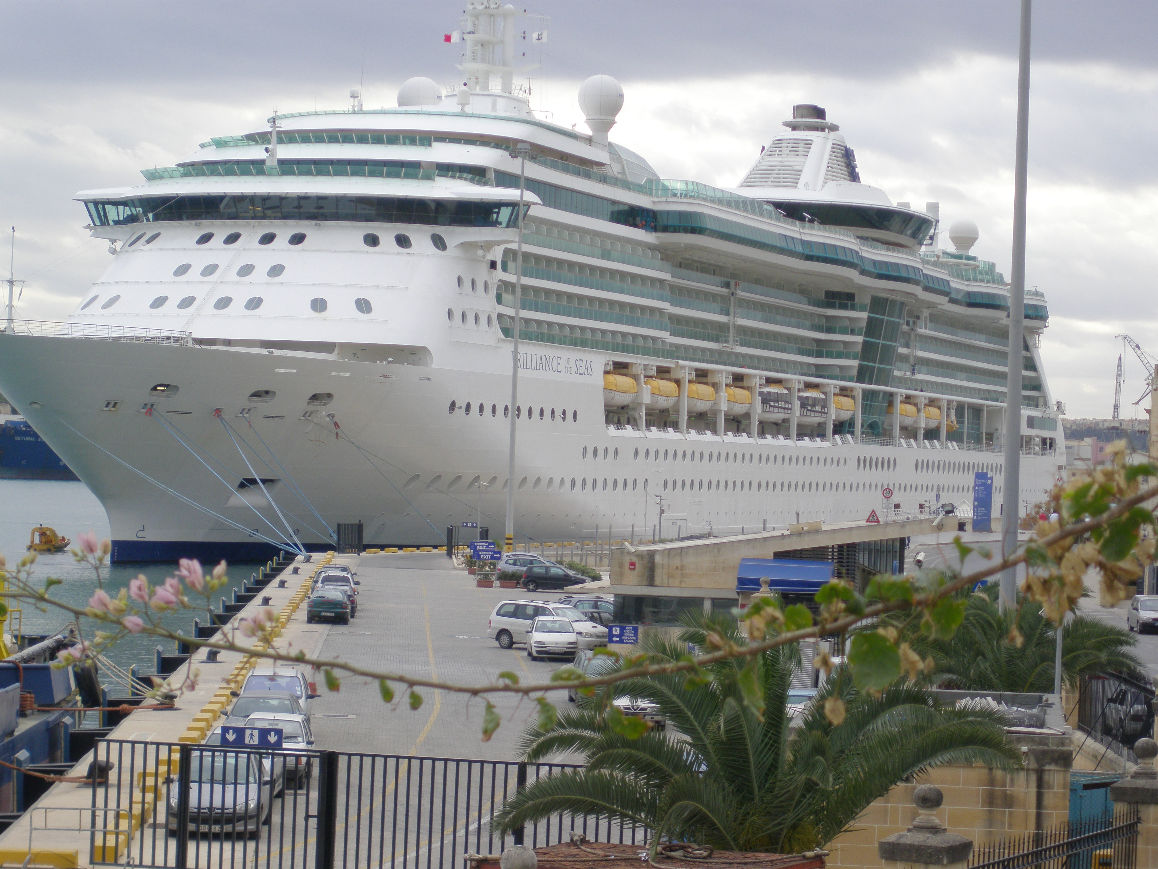 MS Brilliance of the Seas docked at Valletta, Malta following the heeling incident at Alexandria.